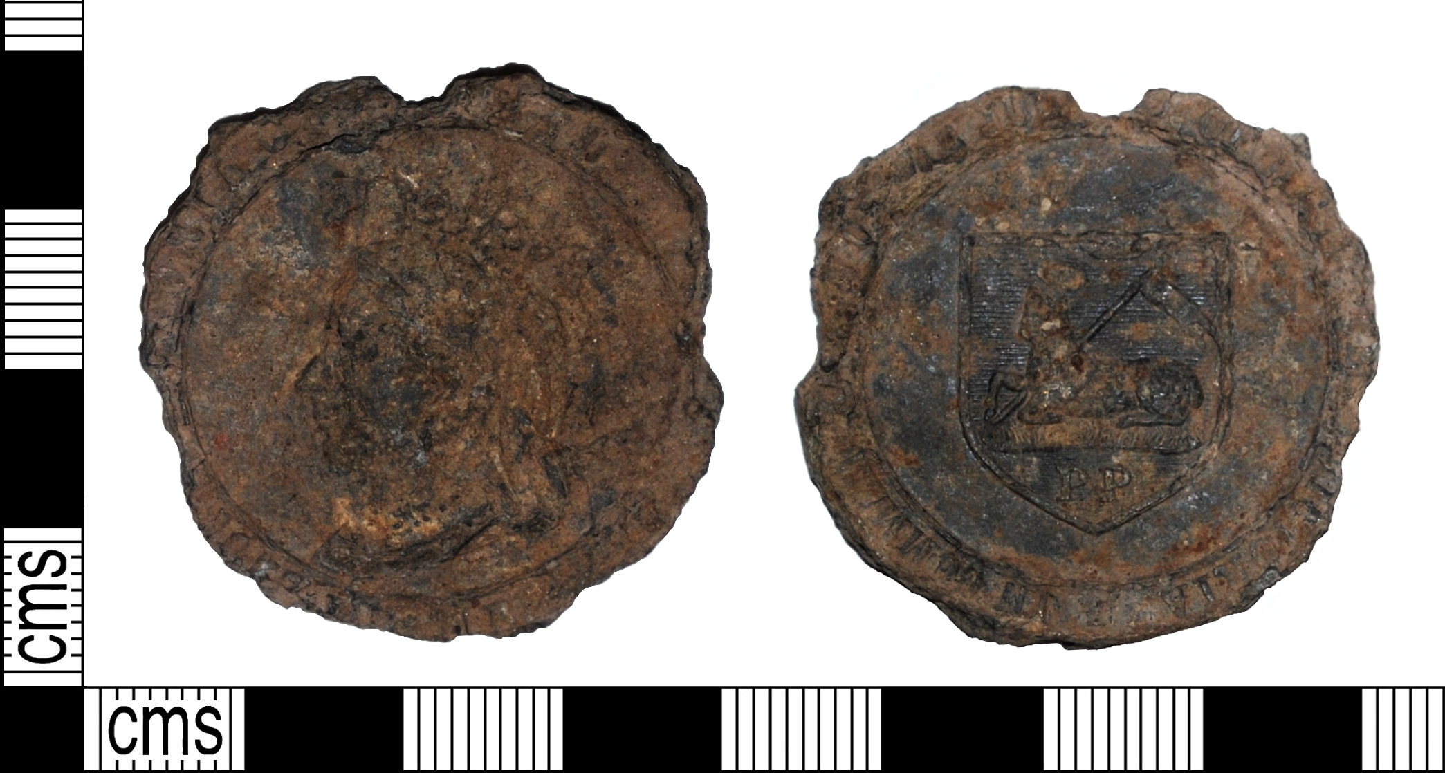 A copper alloy (probably spelter) medal struck to commemorate the golden jubilee of Queen Victoria in 1887. It was originally circular, though now heavily damaged around the circumference. The obverse has a bust of Queen Victoria and would have originally bourne the legend VICTORIA QUEEN AND EMPRESS 1837 JUBILEE 1887. The reverse has the legend IN COMMEMORATION OF THE JUBILEE OF H.G.M QUEEN VICTORIA around the Preston Corporation shield. Diameter 37mm Weight 12.62